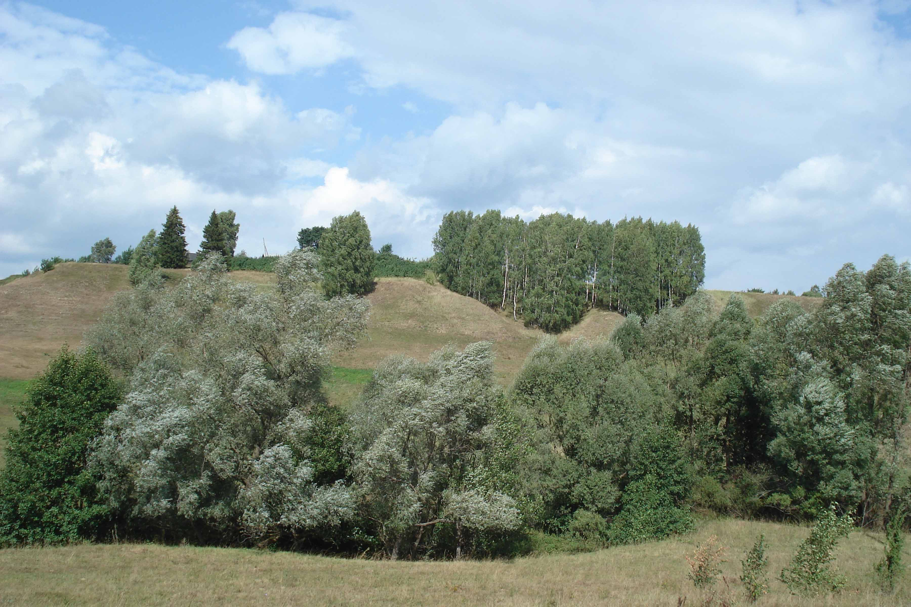 Peremilovsky Mountains. Nizhegorodskaya oblast.